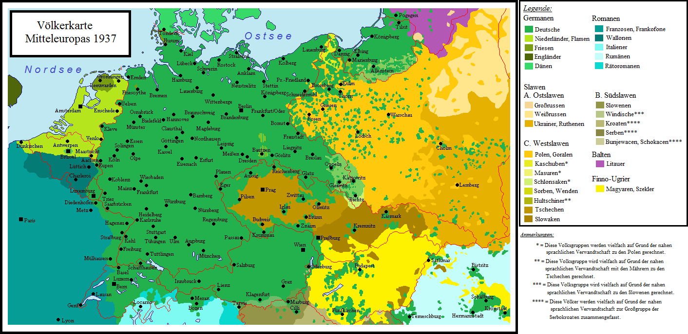 1937 linguistic map of Central Europe